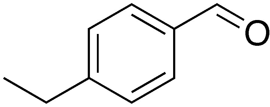 chemical structure of 4-ethylbenzaldehyde